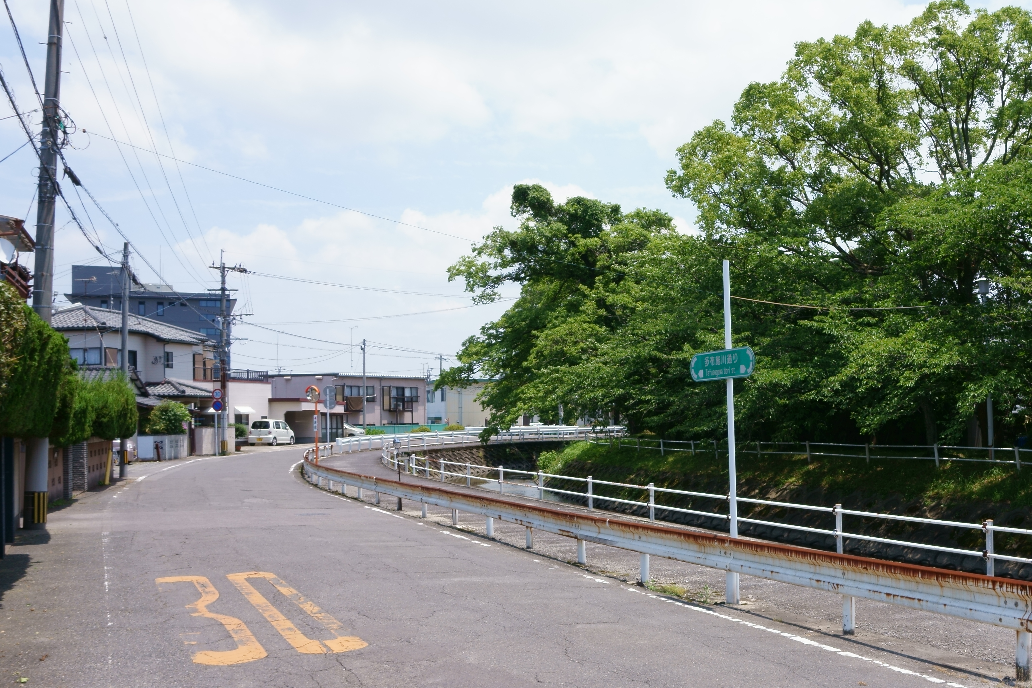 Tafusegawa-dori Street in Tafuse 1-chome, Saga city, Saga prefecture.